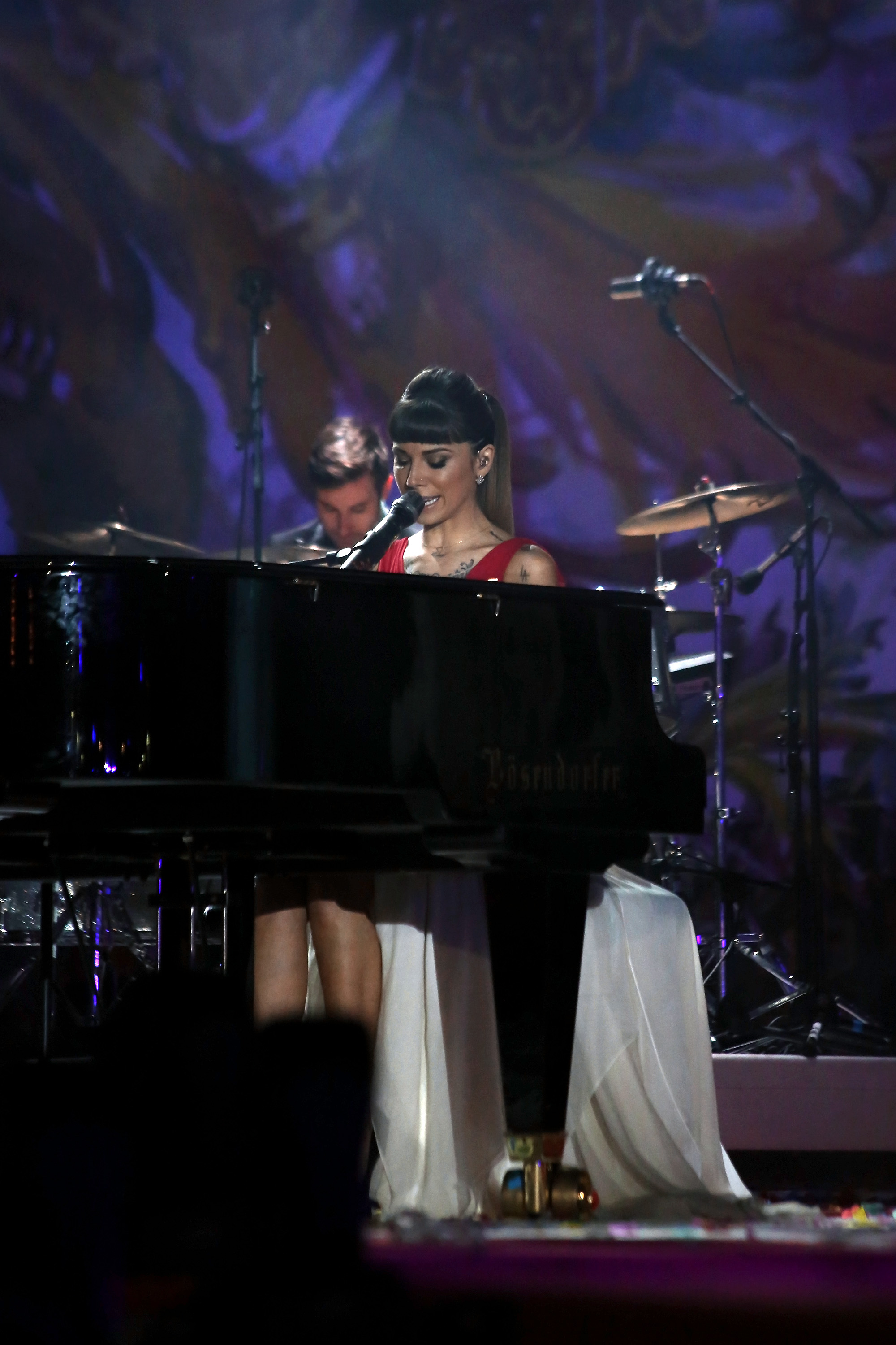 Christina Perri performing at the opening show of Life Ball 2014 at the city hall of Vienna, Vienna, Austria.